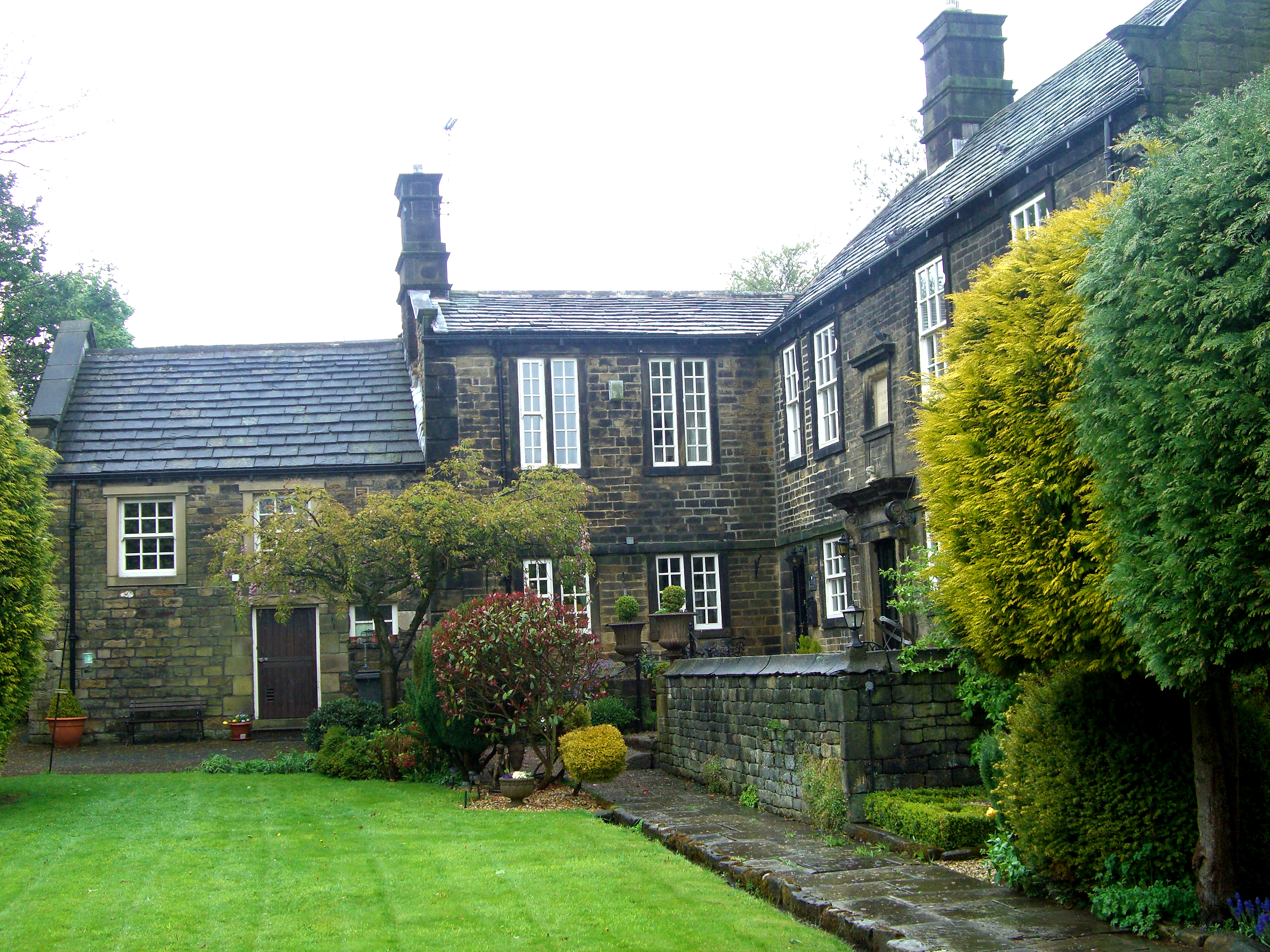 Birley Old Hall at Birley Edge / Fox Hill in Sheffield, England. This Grade II listed building was built in two periods. The east facing wing is late medieval and has oaken cruck supports within it. The south facing and grander wing was built in 1705.